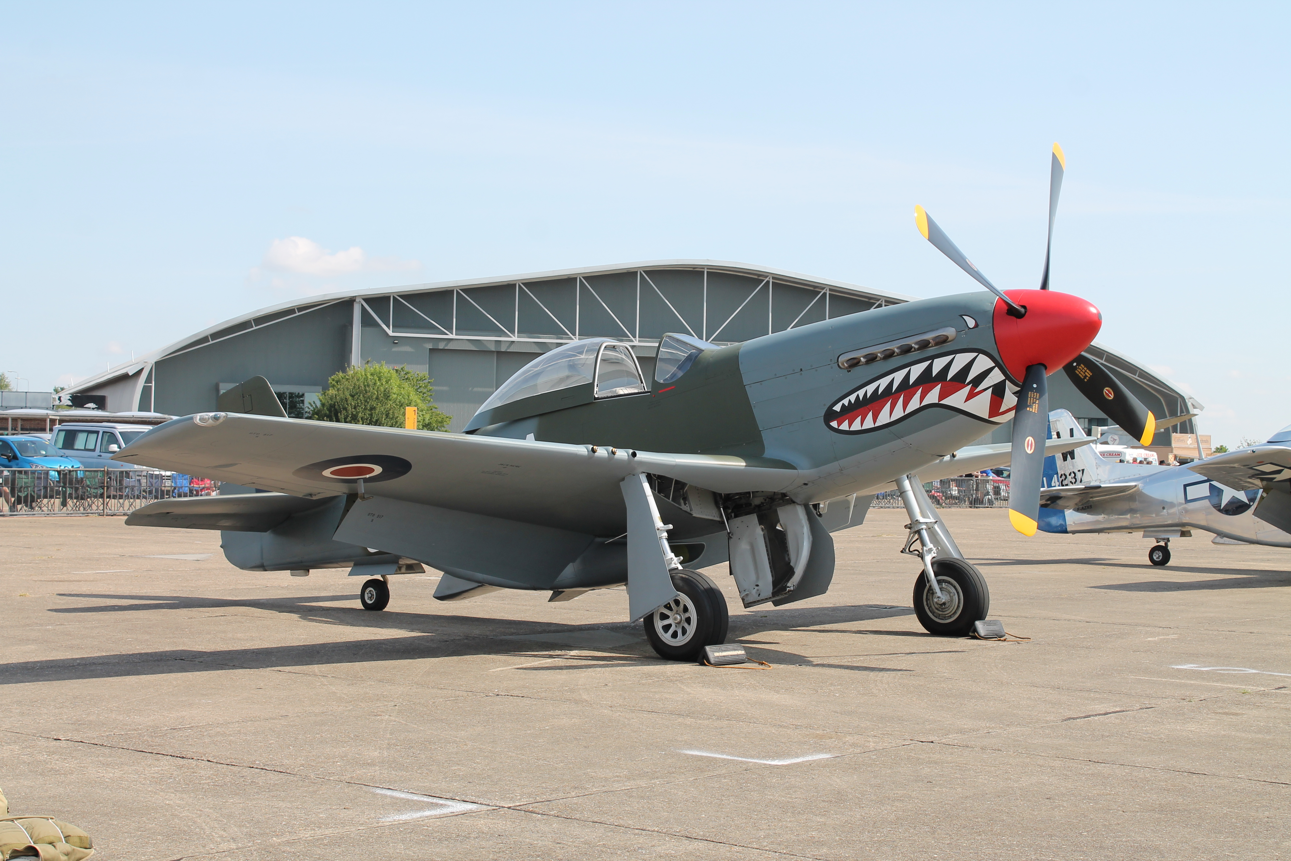 Operated by Norwegian Spitfire Foundation